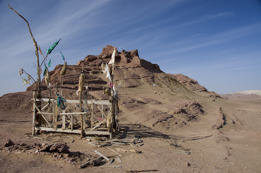 Islamic shrine at Mazar Tagh, photographed by Vic Swift on November 18, 2008 using a Nikon D40.